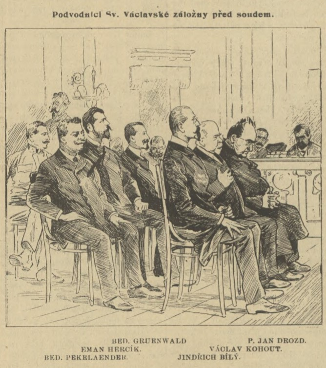 Six officials of Svatováclavská záložna ("St. Wenceslas' Cooperative Bank"), indicted for an involvement in a major fraud, leading to a bankruptcy of this institution, as defendants at a court in Prague. Two main culprits, Jan Drozd and Václav Kohout, were ultimately sentenced to 7 years in prison; two others to 13 and 24 months and two were acquitted.